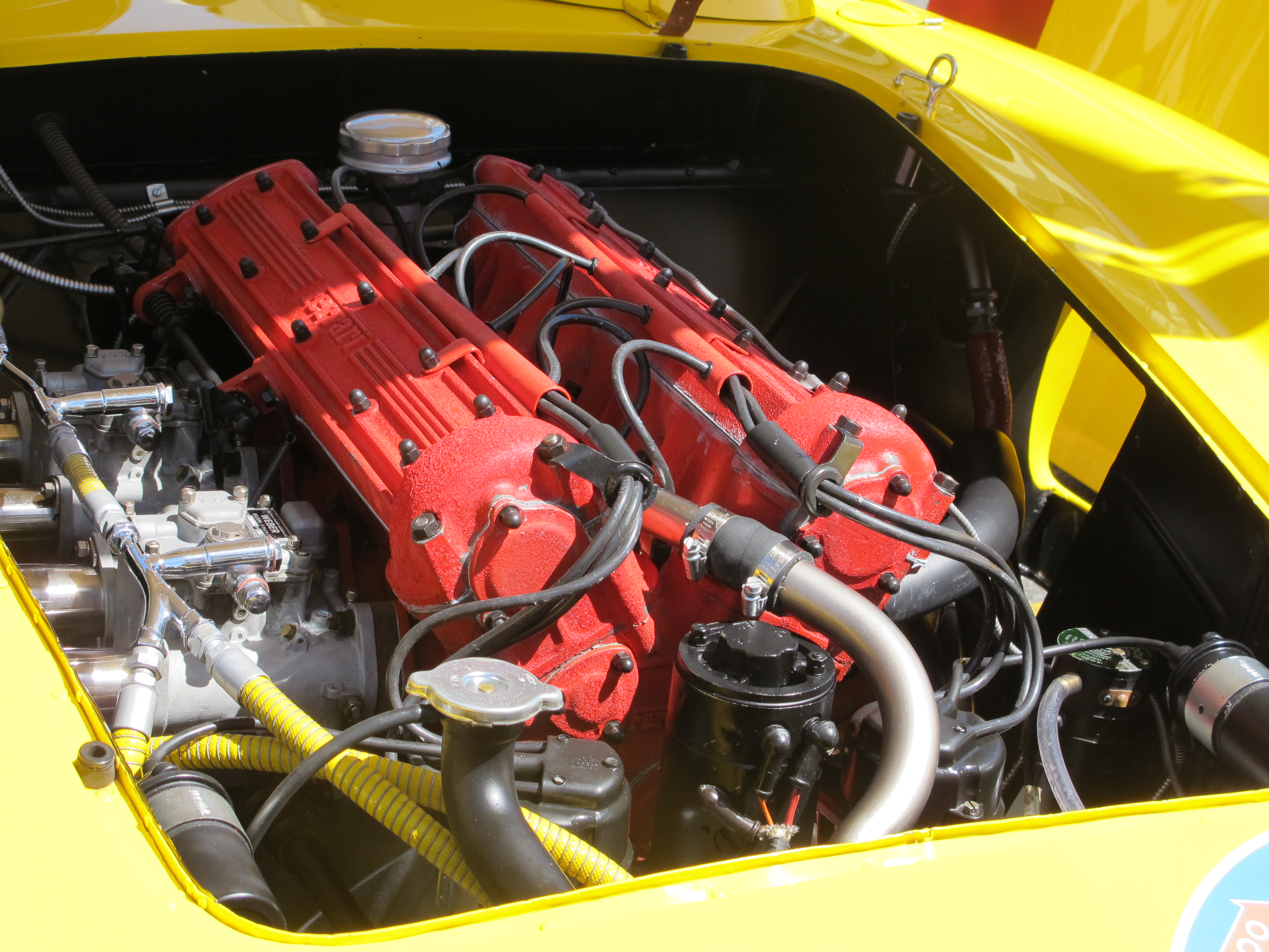 A 2-liter Ferrari four-cylinder engine designed by Aurelio Lampredi; in a Ferrari 500 TR.